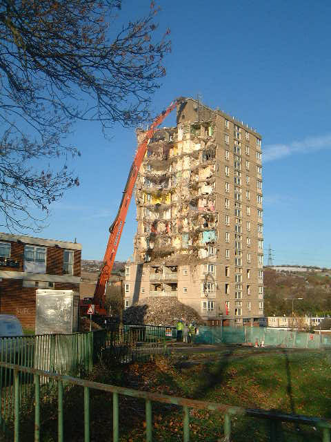 A high-reach excavator is used to demolish this tower block in northern England. (Suspect this may be Huddersfield but have now may of verifying this. Mtaylor848 (talk) 10:36, 17 May 2011 (UTC))